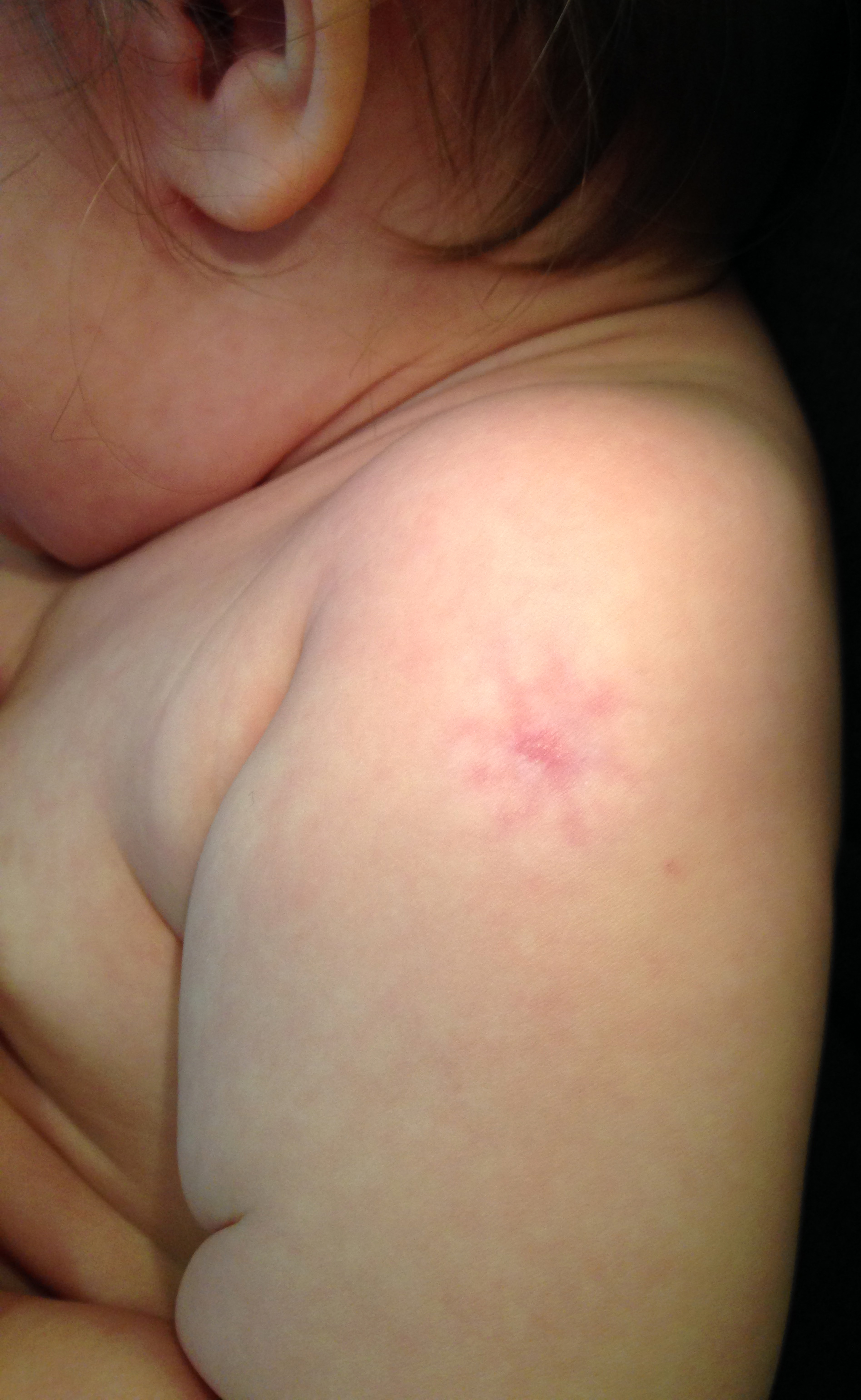 Scar due to a Bacillus Calmette-Guérin (BCG) vaccine, against tuberculosis, in a baby.